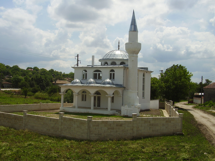 The mosque of village Voyvodino, Bulgaria